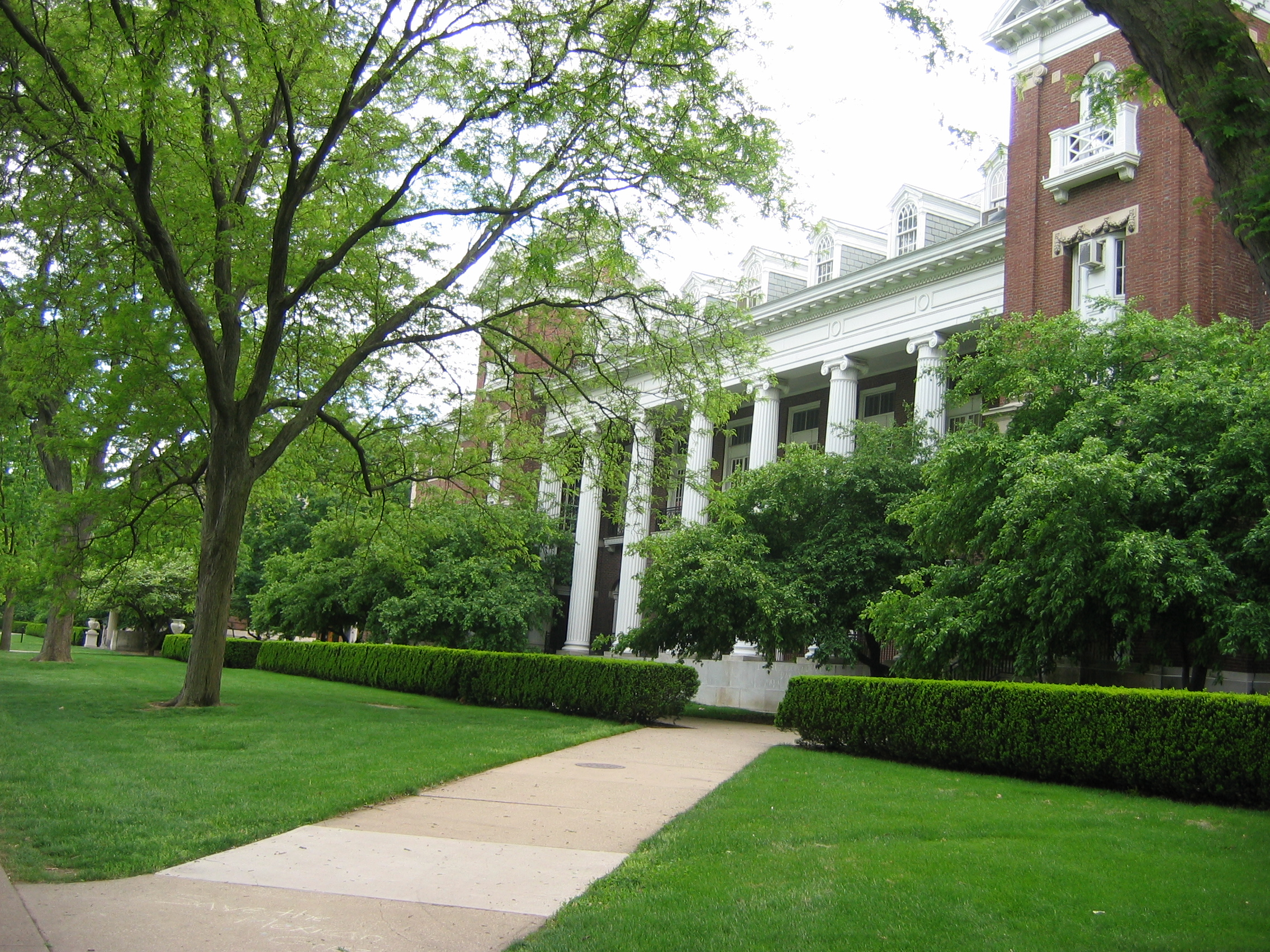 English Building at the University of Illinois. Photo taken by me in summer 2005.